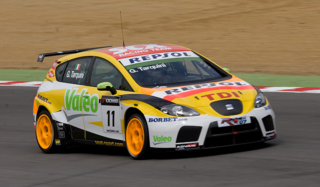 Gabriele Tarquini (SEAT Sport) at the 2008 WTCC Brands Hatch race.